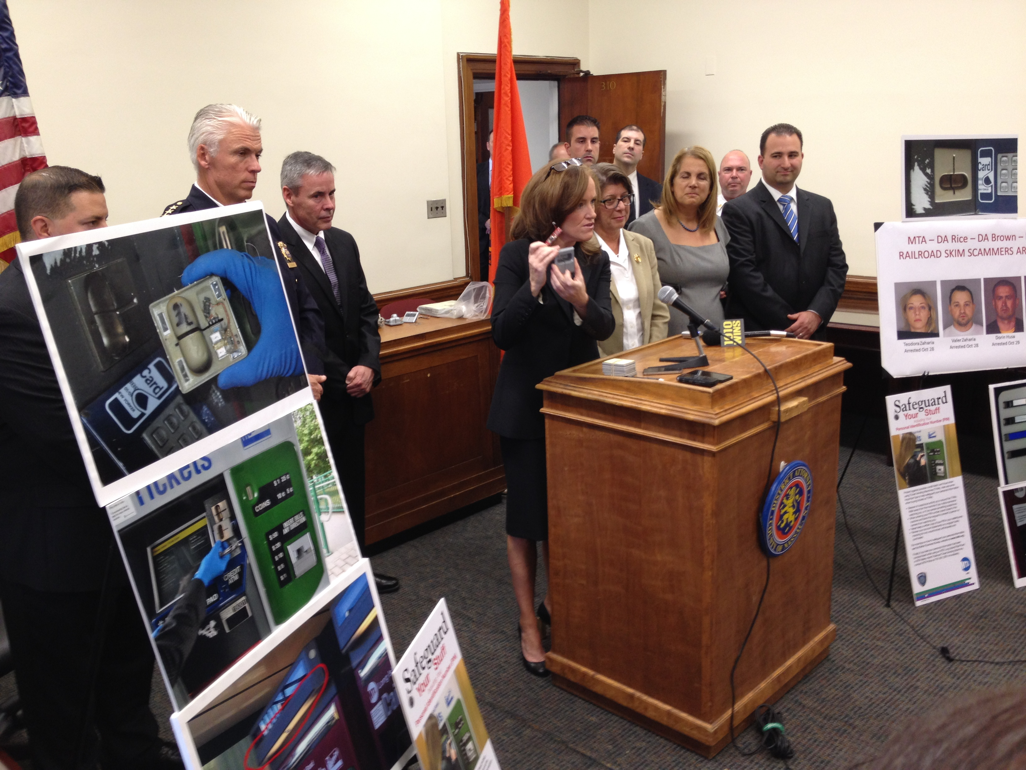 The Metropolitan Transportation Authority Police Department, Nassau County District Attorney Kathleen Rice, Queens District Attorney’s Office and Nassau County Police Department Crimes Against Property (CAP) Squad today announced the arrests of four people in connection with a scam discovered two weeks ago that used hidden cameras and bank card “skimmers” to target MTA Long Island Rail Road customers using ticket vending machines (TVMs) at locations in Nassau and Queens counties. Photo: Metropolitan Transportation Authority / Adam Lisberg